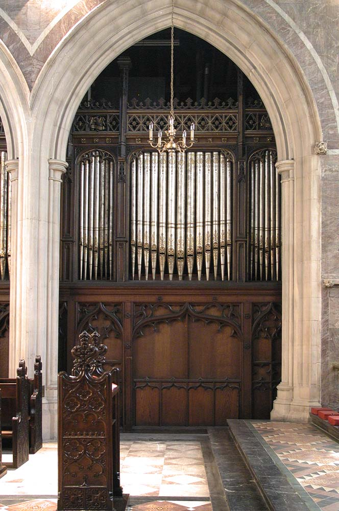 St James the Less, Sussex Gardens, London W2 - Organ, near to Paddington, Westminster, Great Britain.